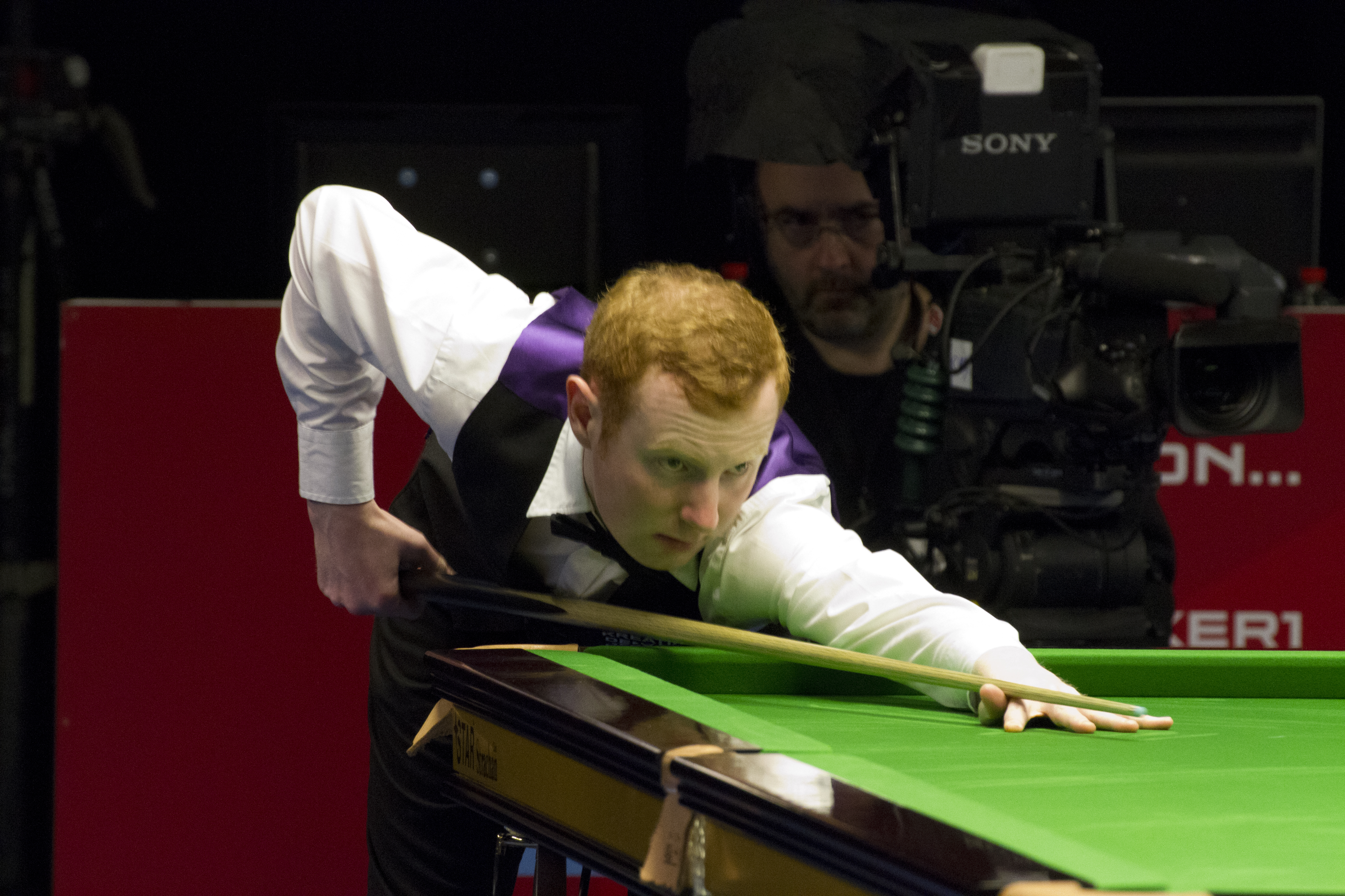 Round of last 32 Martin Gould vs. Ashley Carty John Higgins vs. Peter Ebdon Mark Selby vs. Anthony McGill (TV-Table)